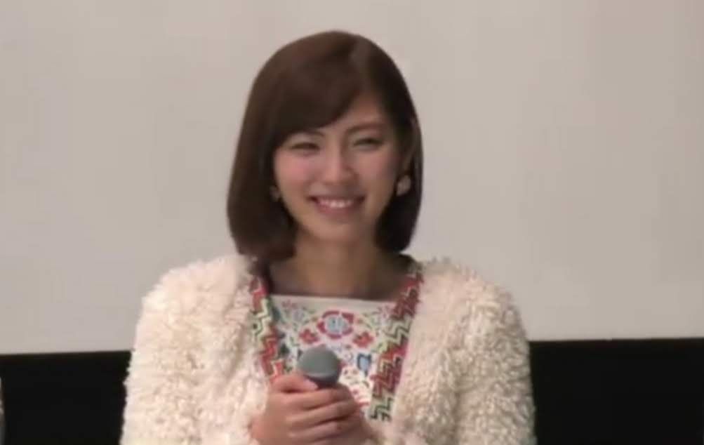 This Is a image of 立石 晴香